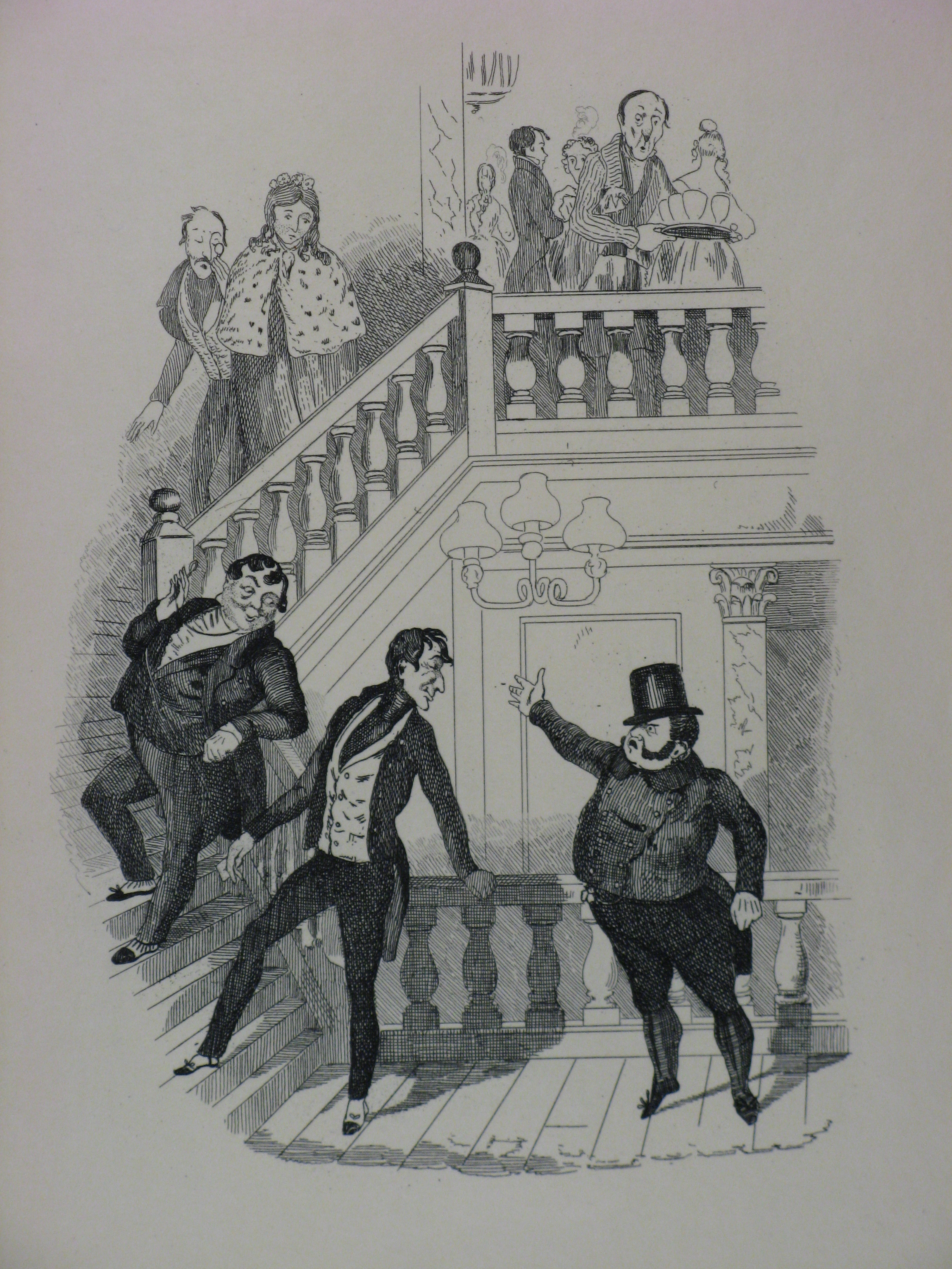 A photograph of an engraving in The Writings of Charles Dickens volume 1, The Pickwick Club, titled "Dr. Slammer's Defiance of Jingle".